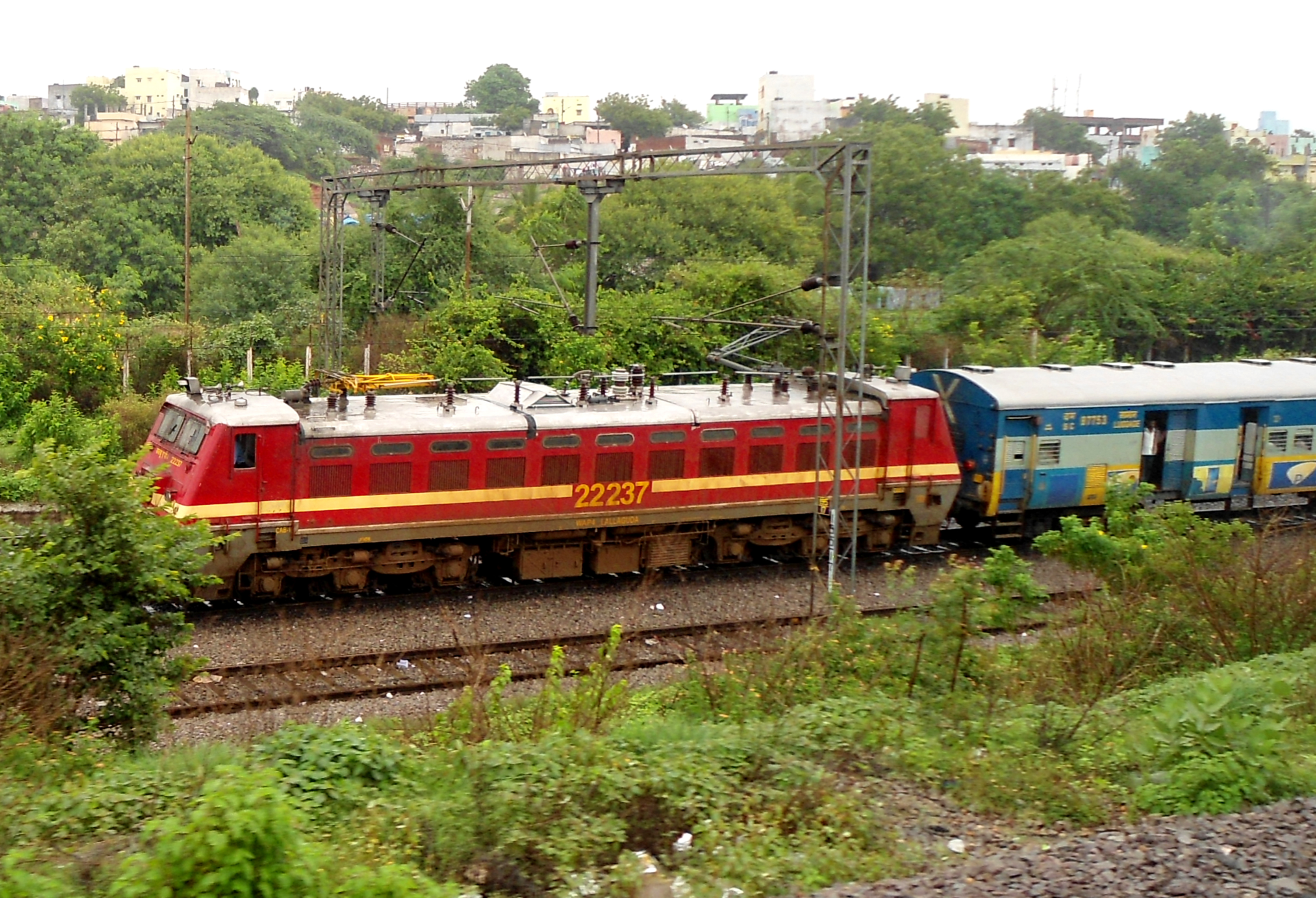 WAP-4 (22237) loco bringing in the (Ballarshah-SC) Bhagyanagar Express at Secunderabad railway station